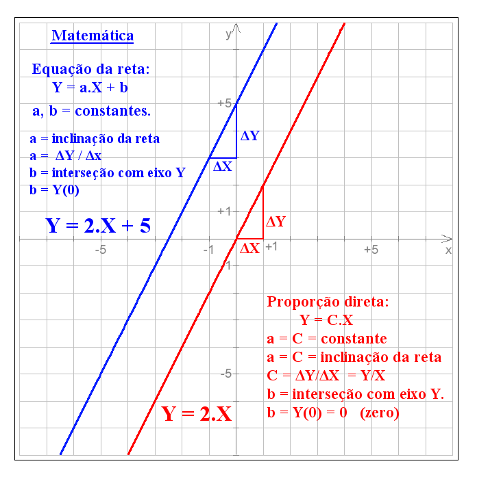 Comparison between the affine function and direct proportion between two variables.